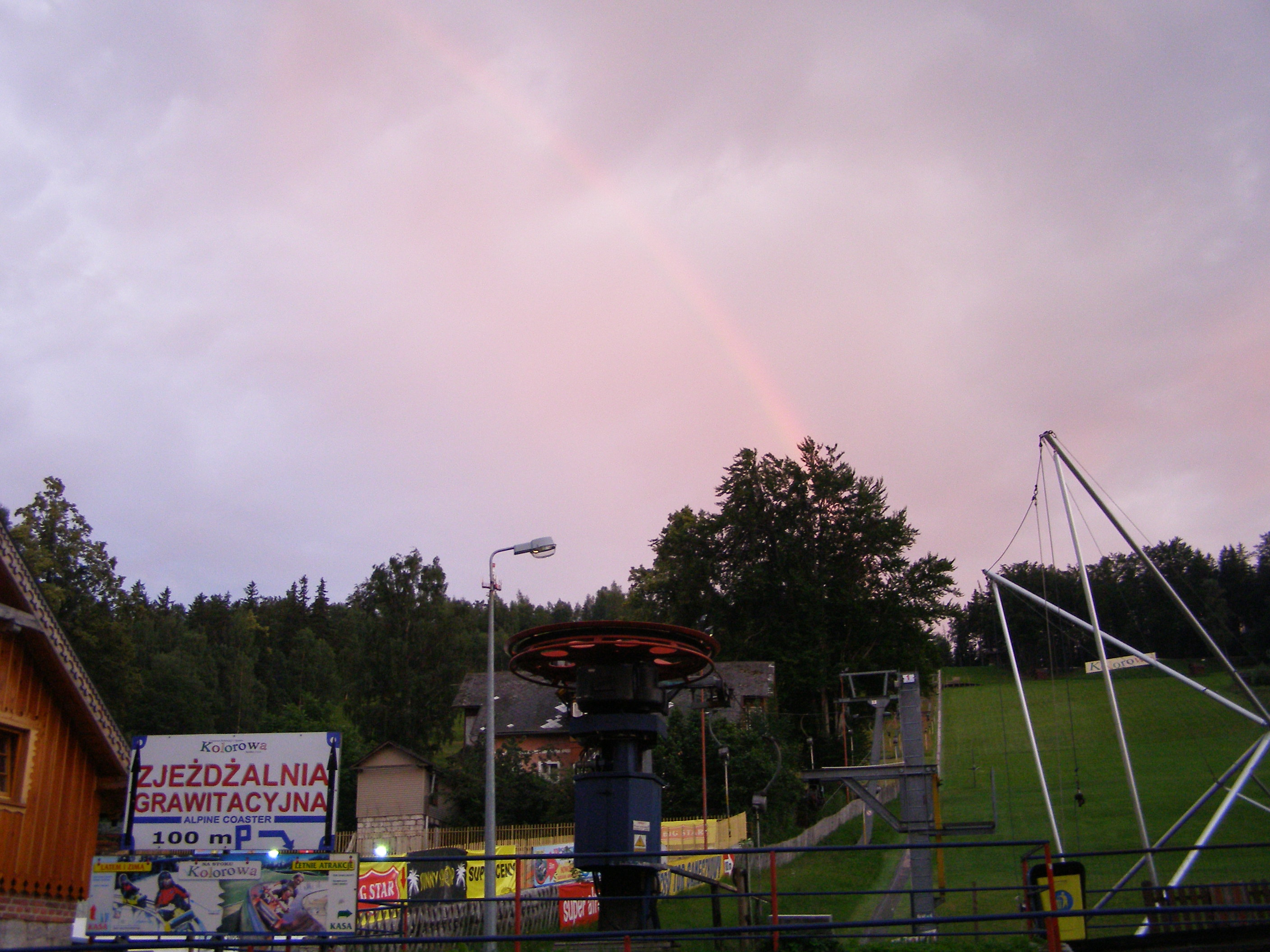 A rainbow on the evening sky over "Kolorowa" ski slope in Karpacz, Poland